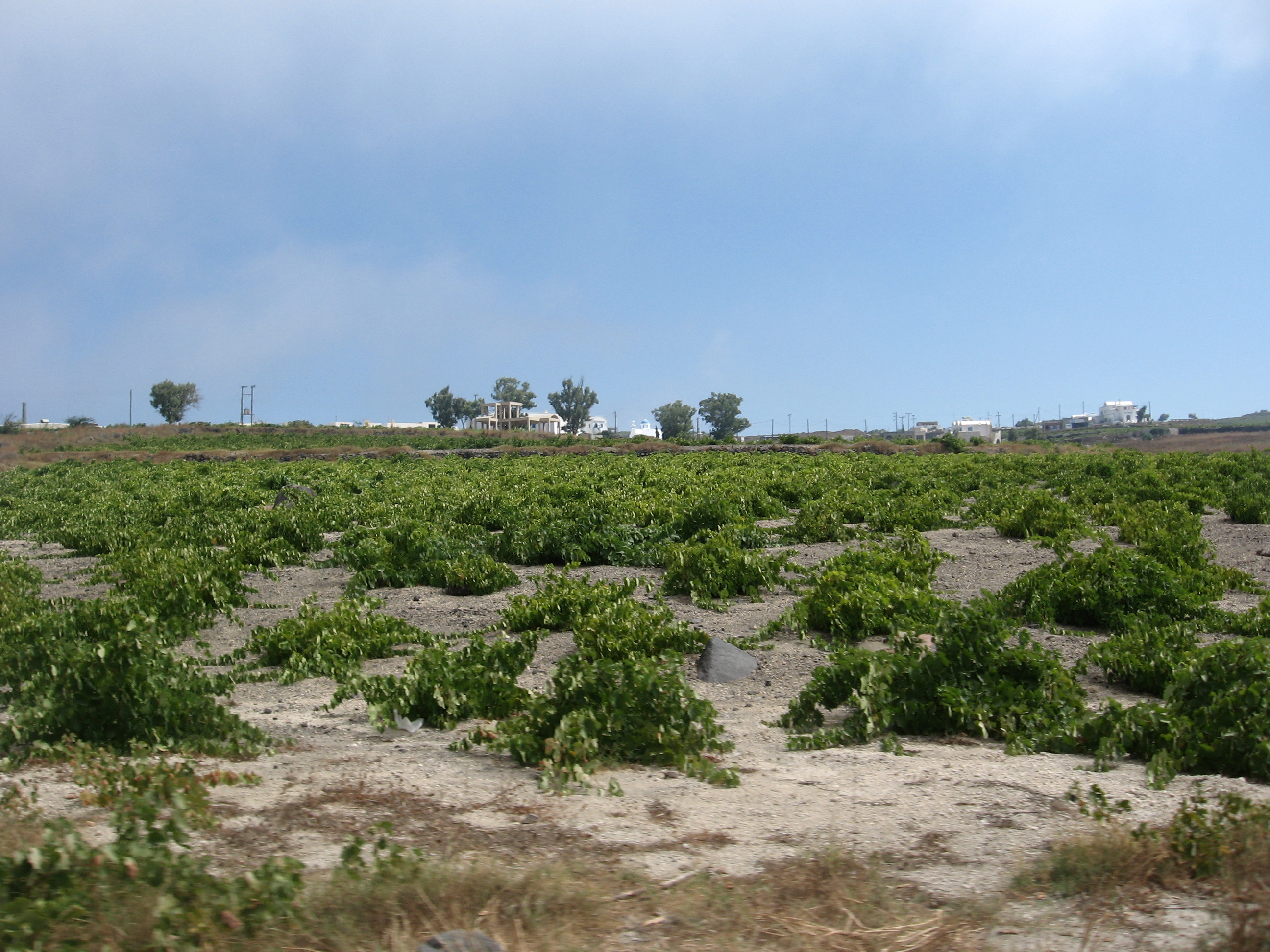 Grapevines in Santorini.